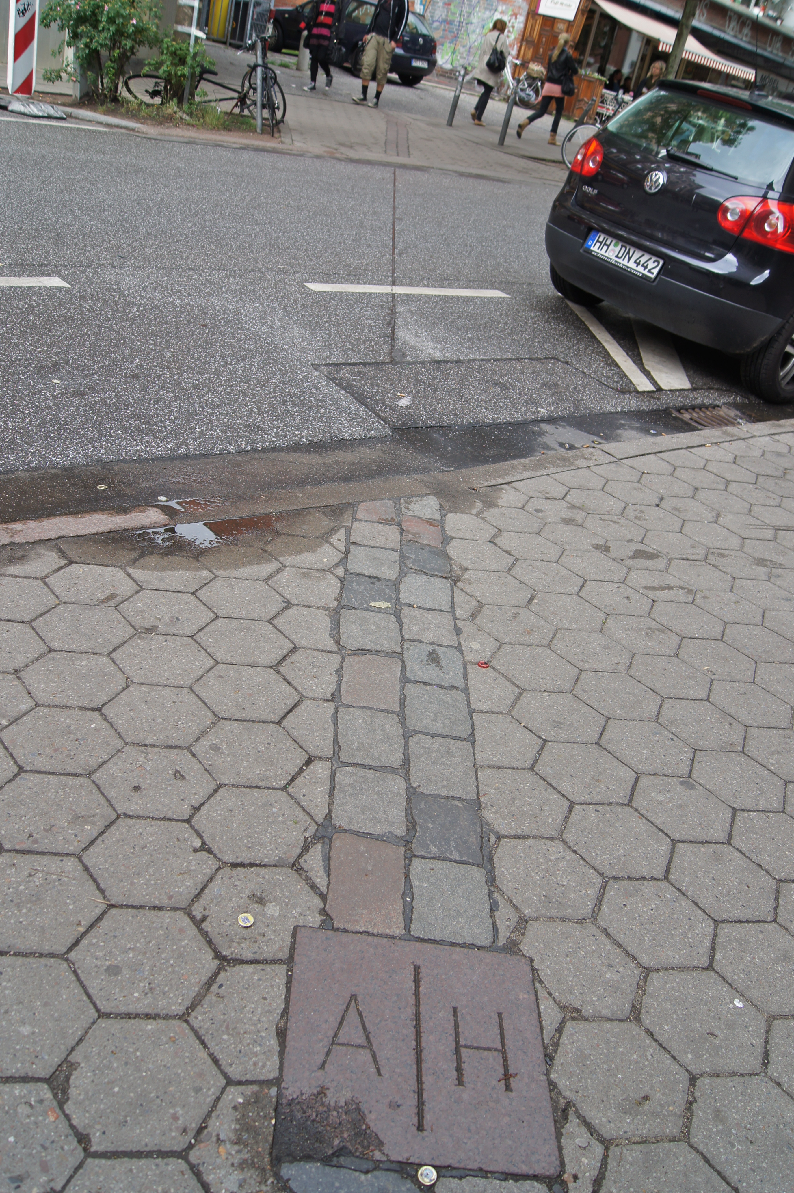 Hamburg (Sankt Pauli), Germany: Borderstone at the former state border between Hamburg and Altona in the Paul-Roosen-Straße